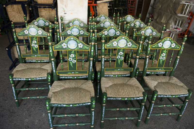 Cattail (Typha) chairs production, Galaroza, Huelva, Spain